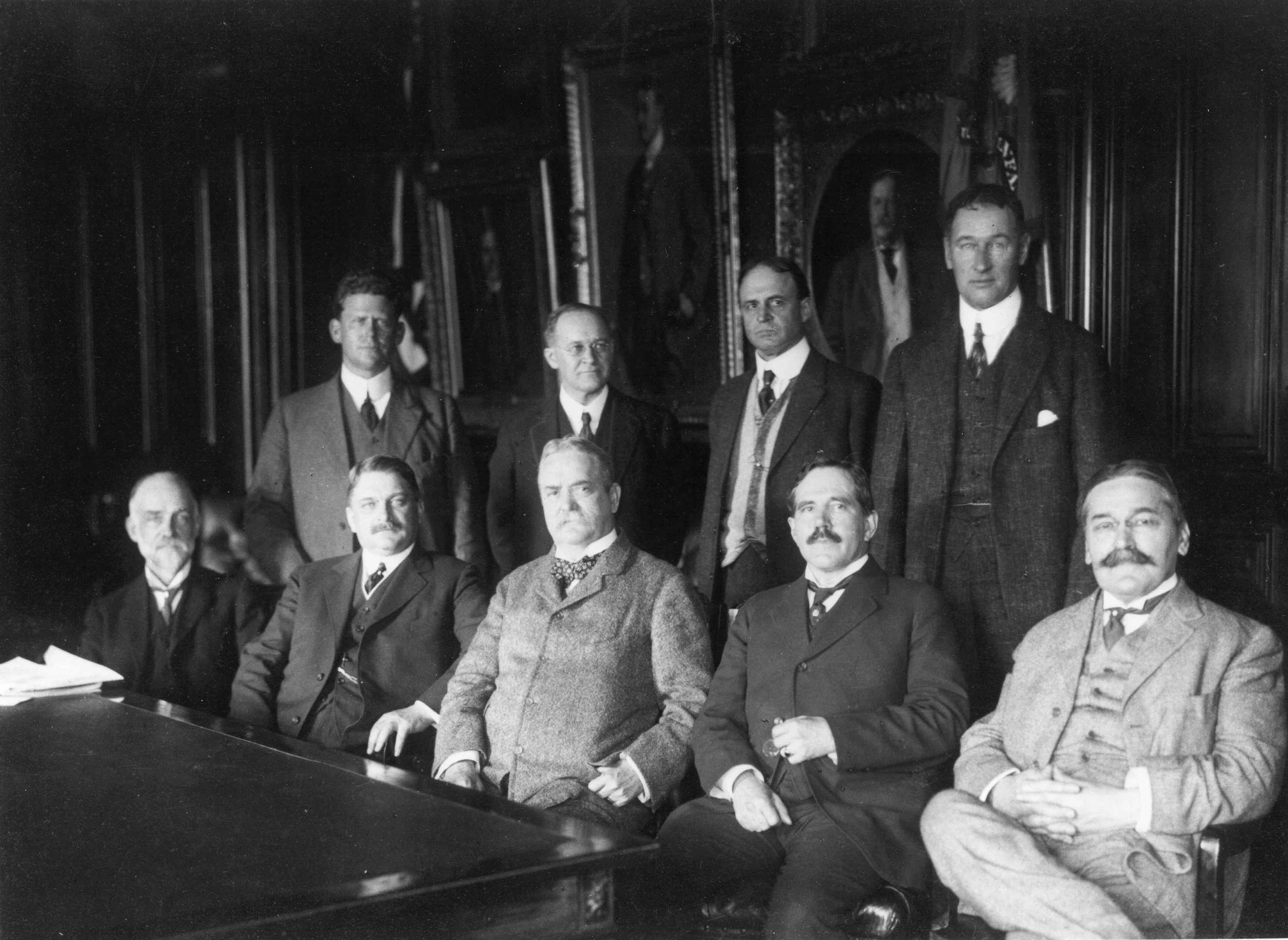 The first meeting of the National Advisory Committee for Aeronautics (NACA.) in the Office of The Secretary Of War April 23, 1915. Brig. Gen. George P. Scriven was elected as the temporary Chairman of the NACA and Dr. Charles D. Walcott (not pictured), Secretary of the Smithsonian, was elected Chairman of the NACA Executive Committee. After the Wright Brothers historic first flight in 1903, the United States began to fall behind in aeronautical research. With the beginning of World War I the nation realized it needed a center for aeronautical research as a means of catching up technologically with Europe. On March 3, 1915 the legislation creating the NACA passed and the NACA was born. For 43 years the NACA worked to advance aviation research until it was eventually absorbed into the new space agency, NASA, in 1958. Seated from Left to Right:Dr. William Durand, Stanford University, California.Dr. S.W. Stratton, Director, Bureau of Standards.Brig.Gen. George P. Scriven, Chief Signal Officer, War Dept.Dr. C.F. Marvin, Chief, United States Weather Bureau Dr. Michael I Pupin, Columbia University, New York. Standing:Holden C. Richardson, Naval Instructor.Dr. John F. Hayford, Northwestern University, Illinois.Capt. Mark L. Bristol, Director of Naval Aeronautics.Lt. Col. Samuel Reber, Signal Corps. Charge, Aviation Section Also present at the First Meeting:Dr. Joseph S. Ames, Johns Hopkins University, Baltimore, MD.Hon. B. R. Newton, Asst. Secretary of Treasury.